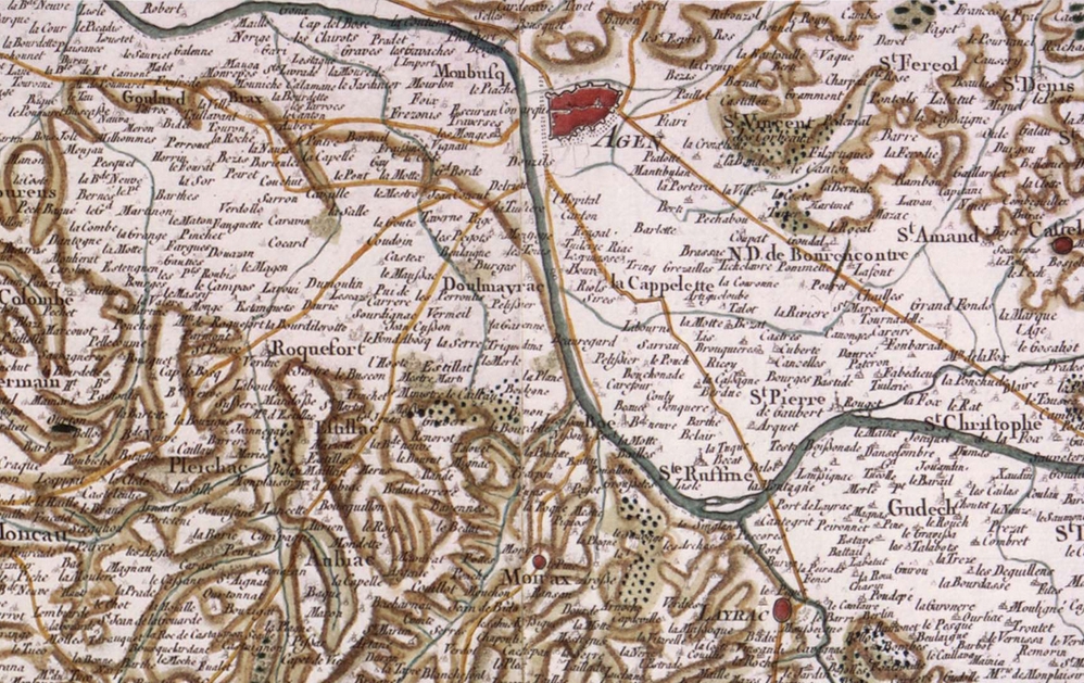 Dolmayrac, former "municipality" of France (village of the kingdom of France before 1789)